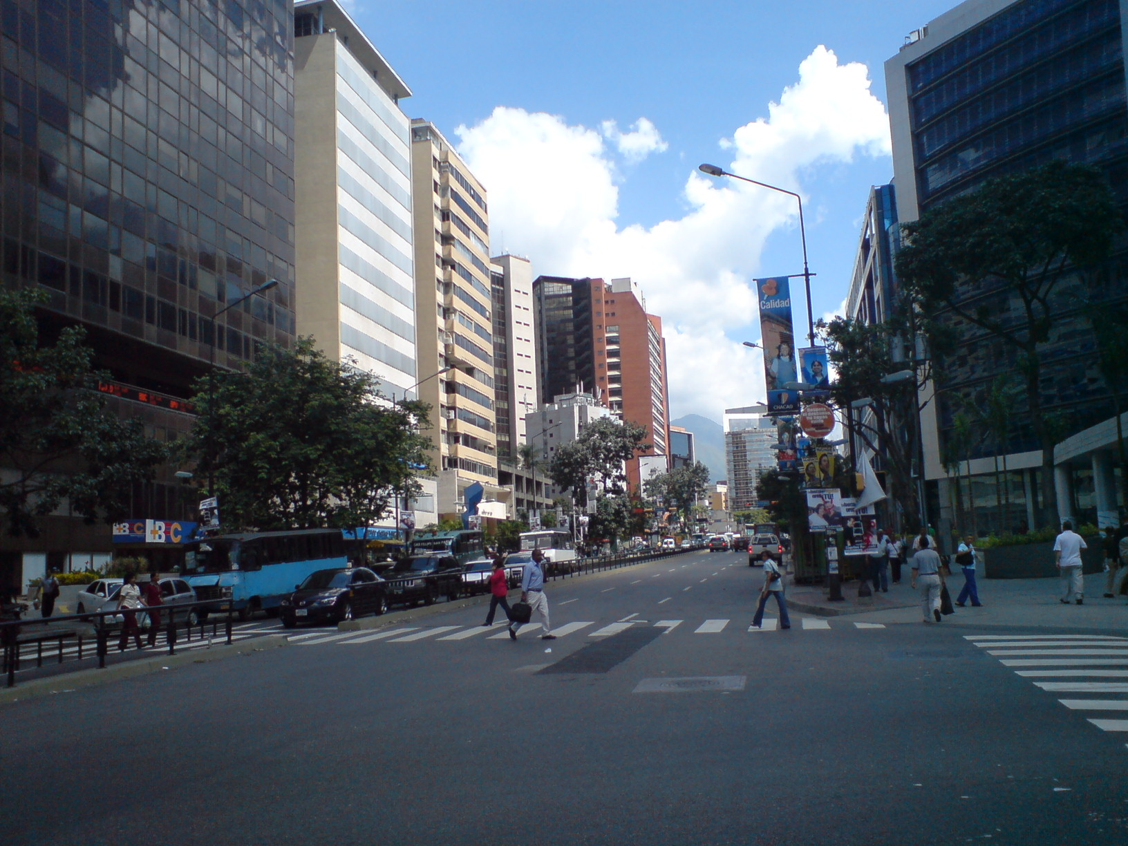 Partial view to the east of the Caracas financial district, known as the Golden Mile. The Francisco de Miranda Avenue runs through it.